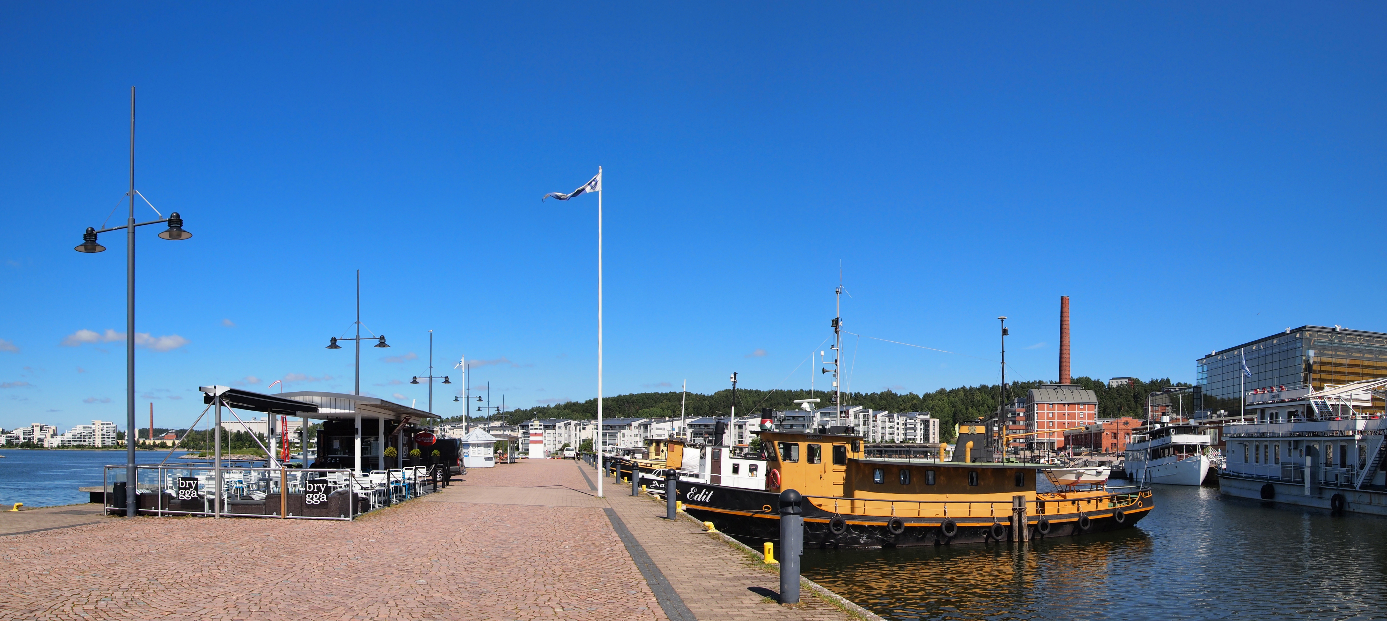 Lahti harbour, Finland.